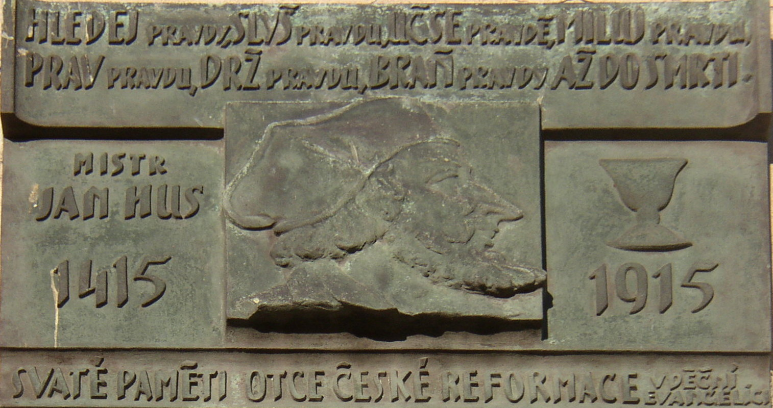 Plaque commemorating and quoting Czech religious reformer Jan Hus above entrance of the Evangelical church in Libčice nad Vltavou, Prague-West District, Czech Republic. Seek Truth, hear Truth, learn Truth, love Truth, speak Truth, hold Truth, defend Truth up to death.